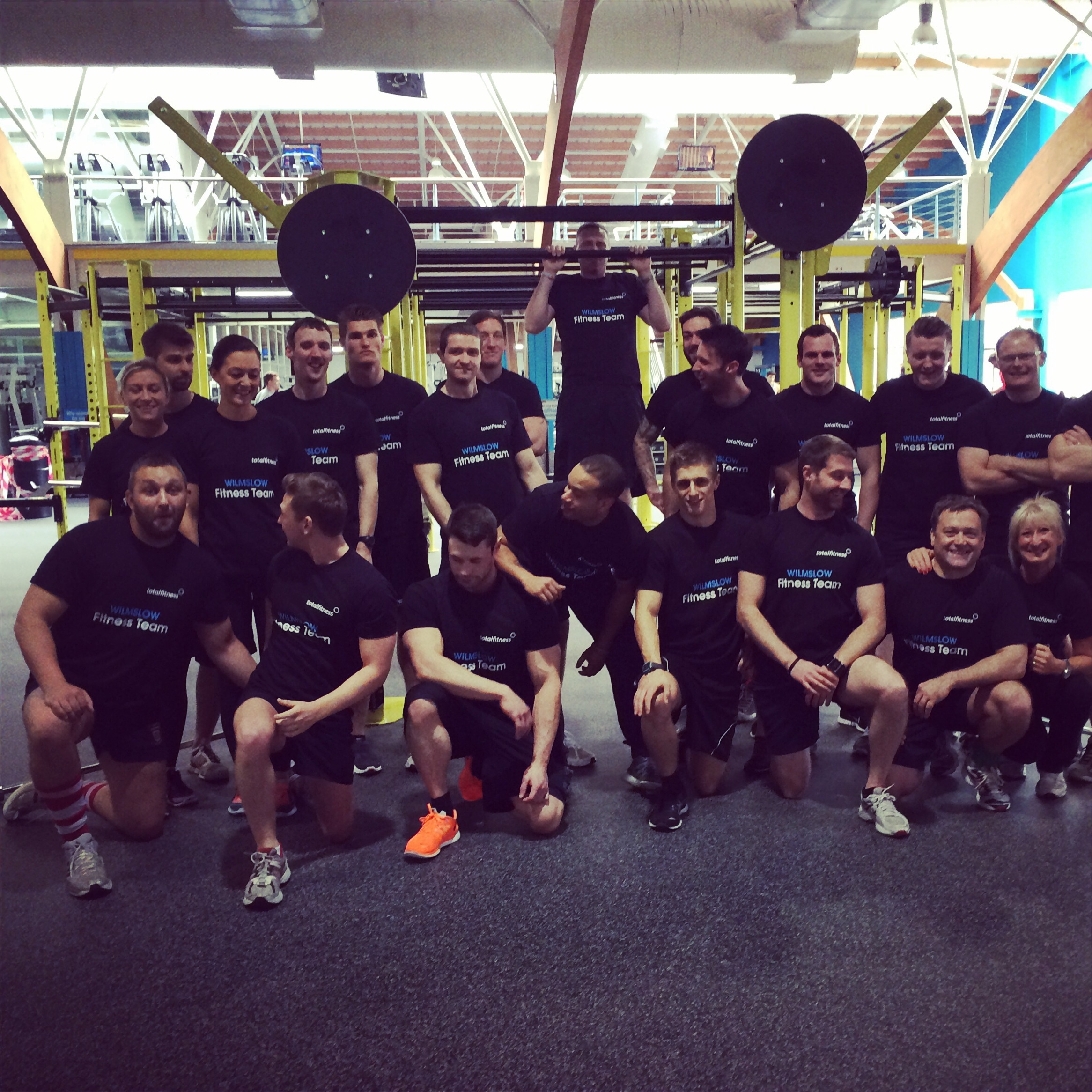 The Wilmslow Fitness team